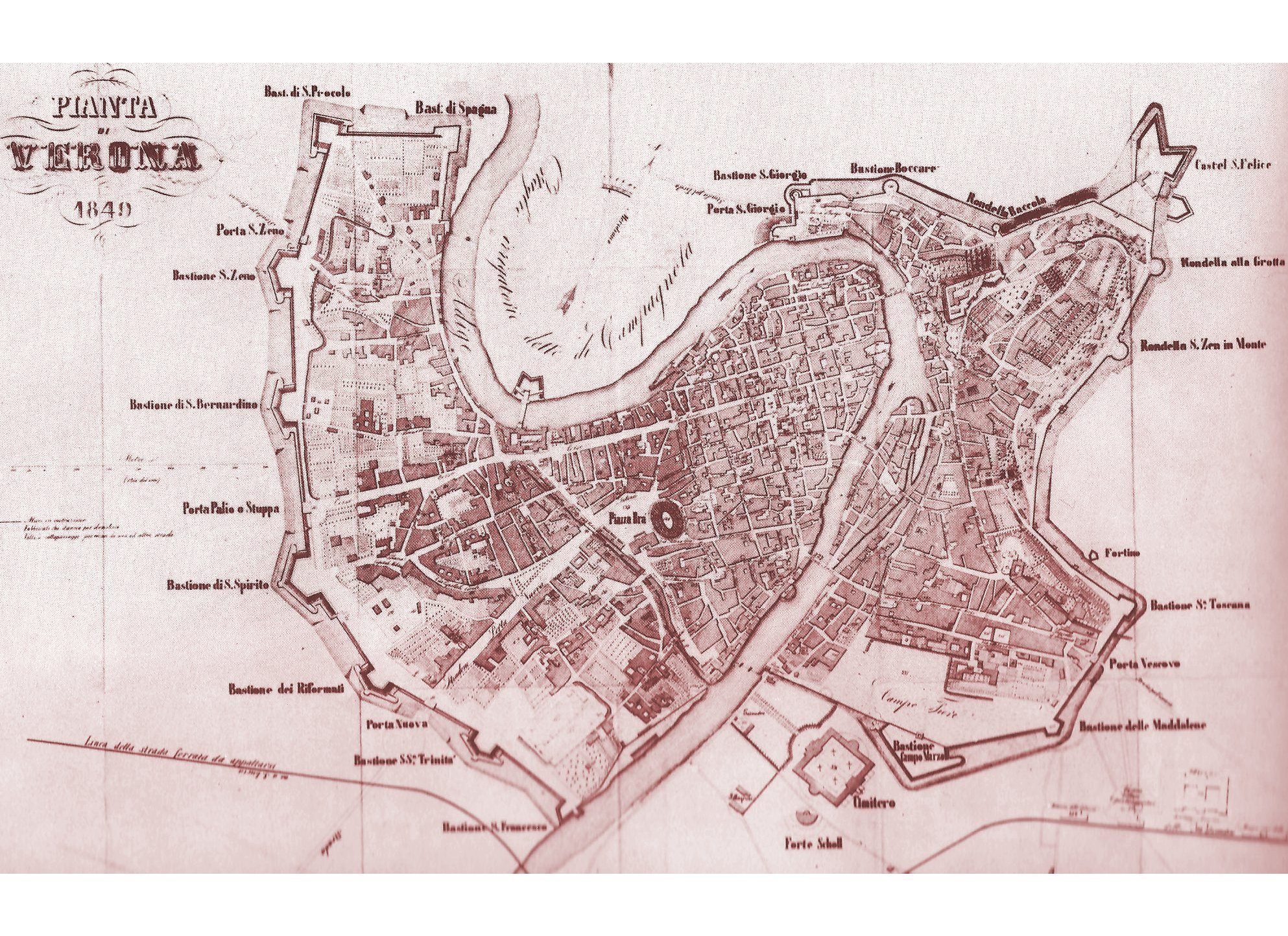 Verona's (Italy) historical map, 1849